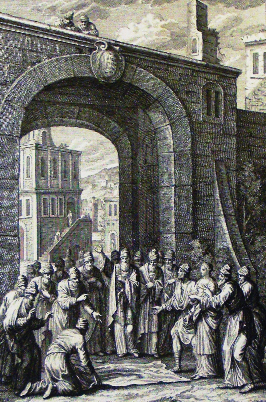 A print from the Phillip Medhurst Collection of Bible illustrations in the possession of Revd. Philip De Vere at St. George’s Court, Kidderminster, England.